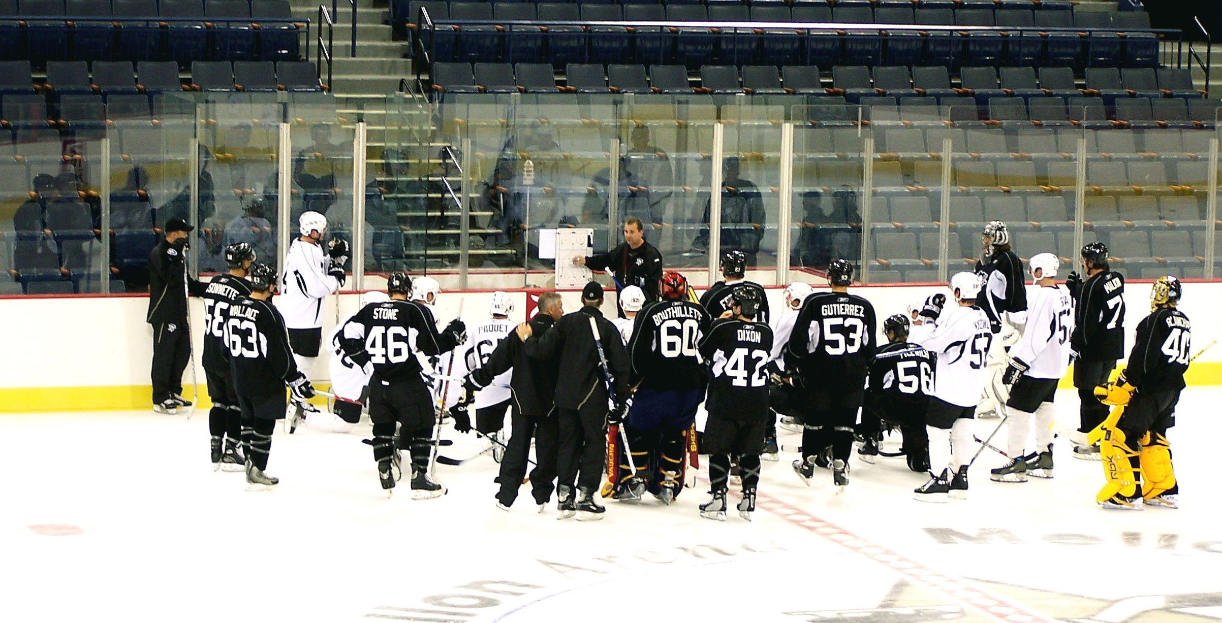 Penguins_2006_Rookies, Pittsburgh Penguins, USA